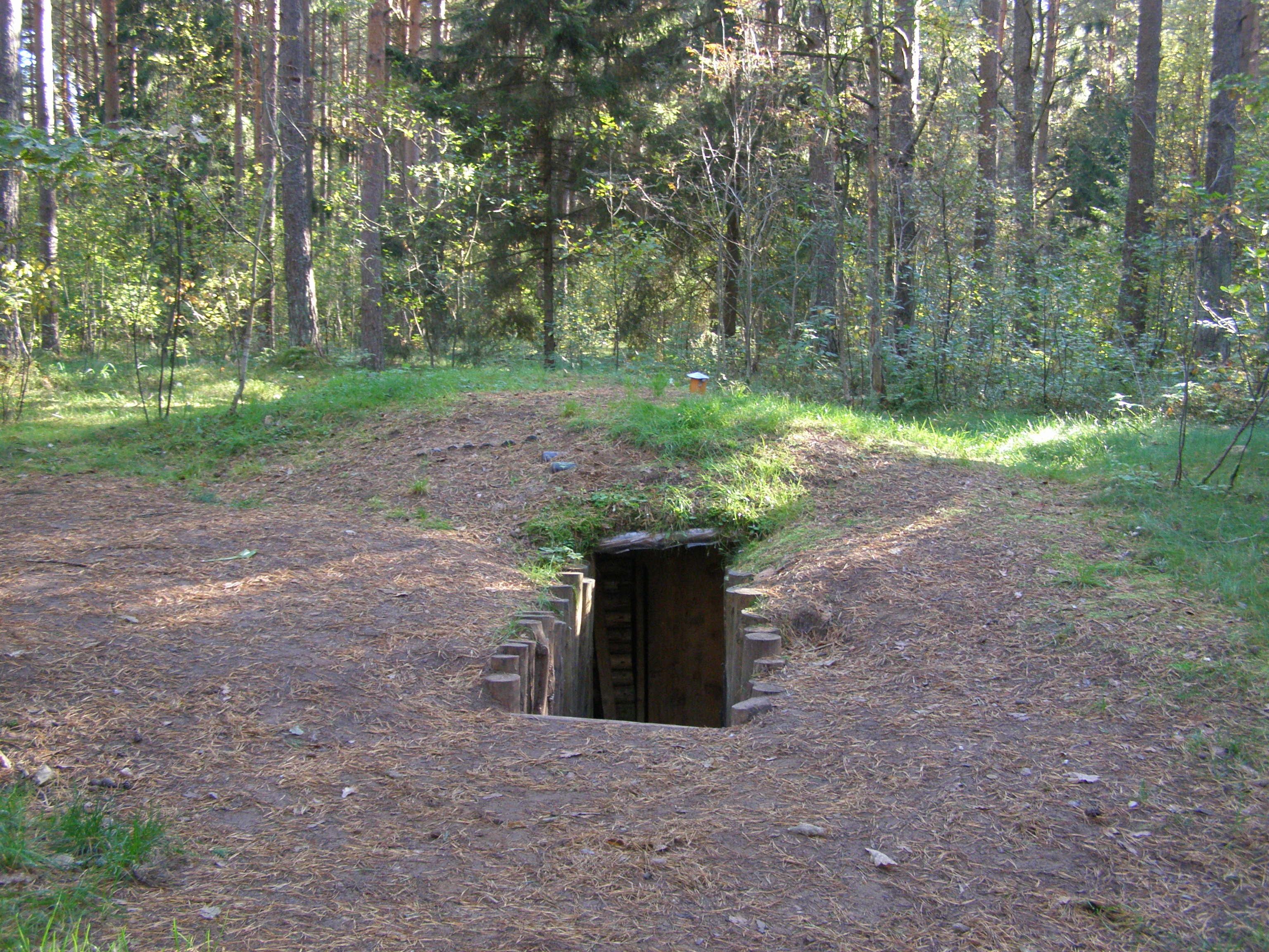 Žibininkai, Kretinga district, Lithuania